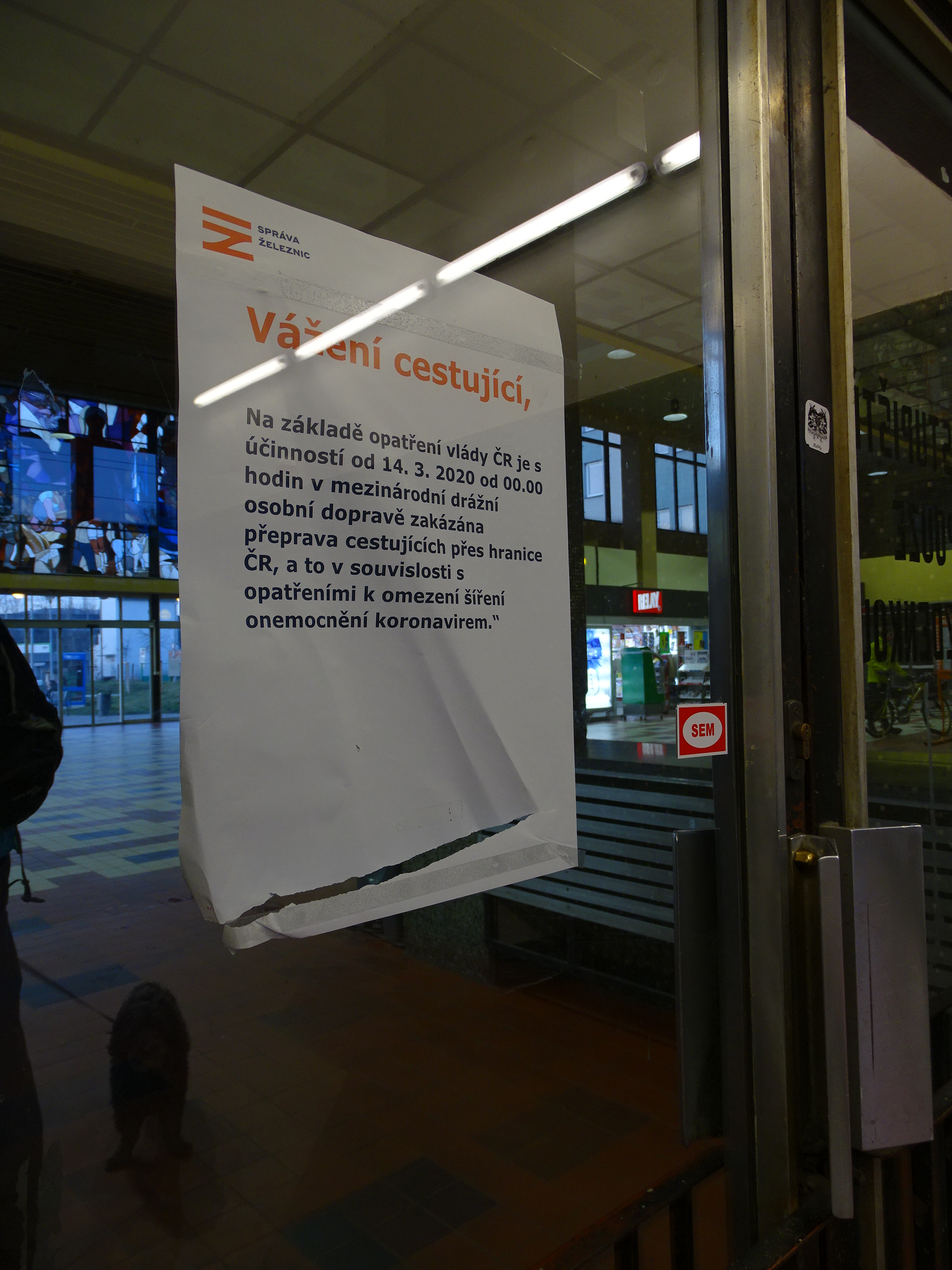 Beroun, Beroun District, Central Bohemian Region, Czechia. Train station Beroun, announcement about prohibition of international transport during the coronavirus epidemic.